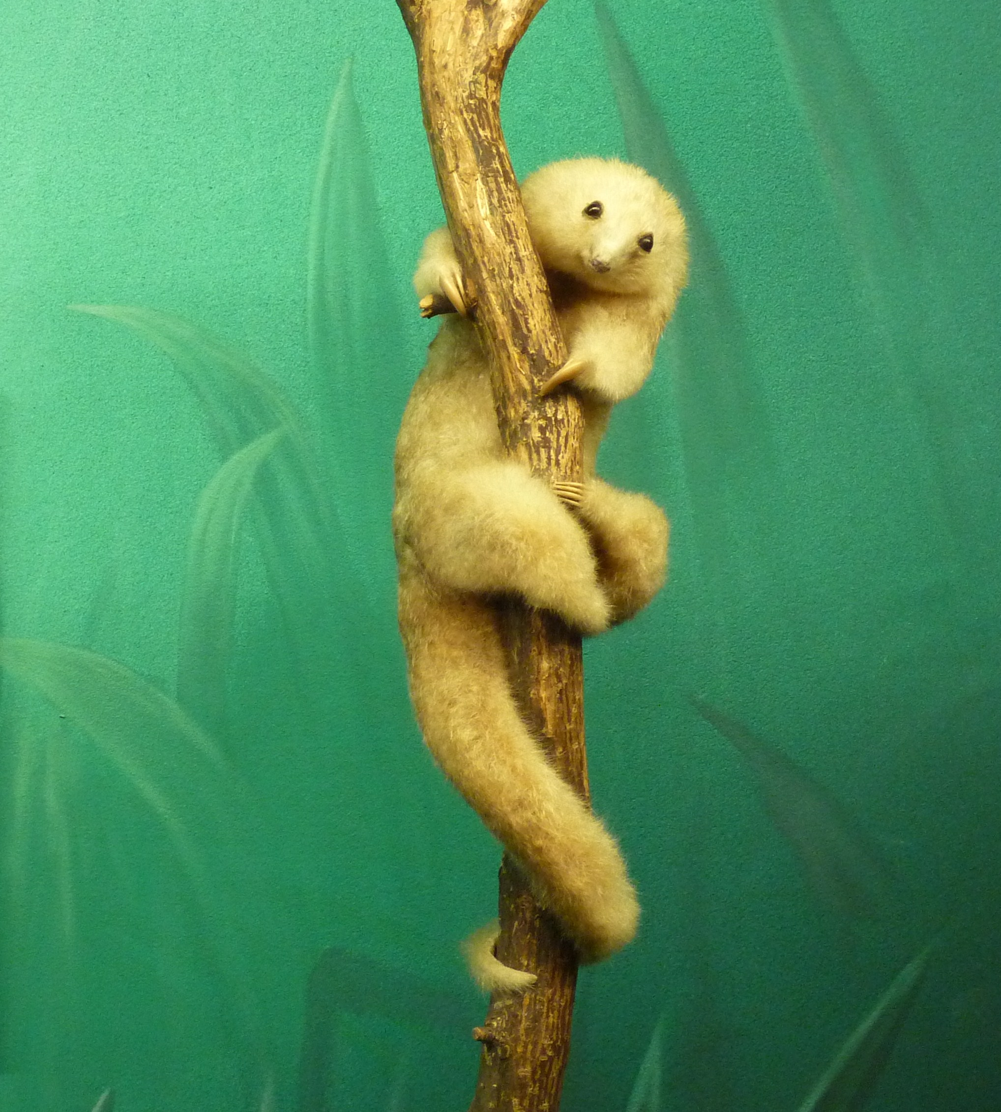 Silky Anteater (Cyclopes didactylus)